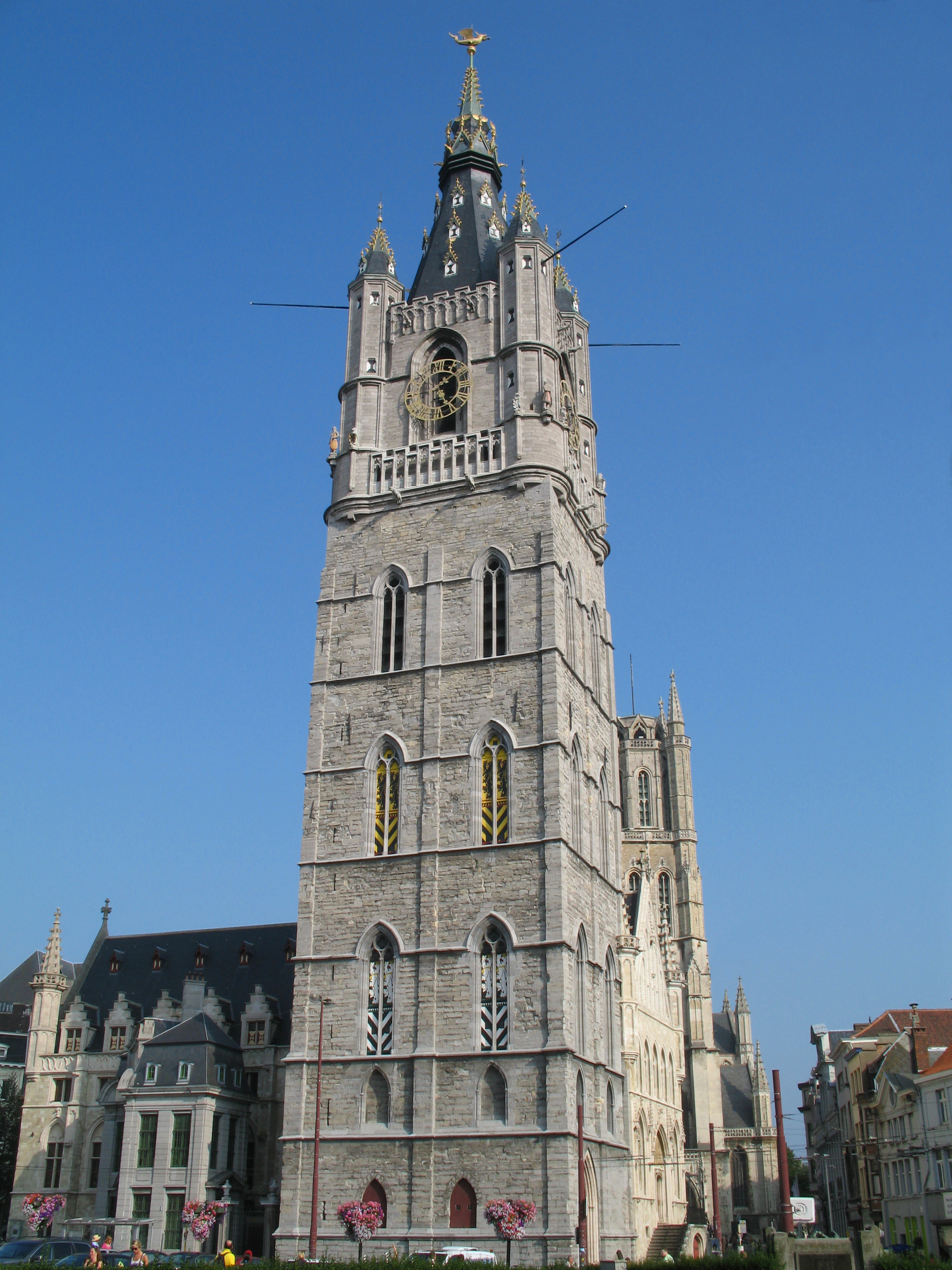 The belfry of Ghent (Belgium)